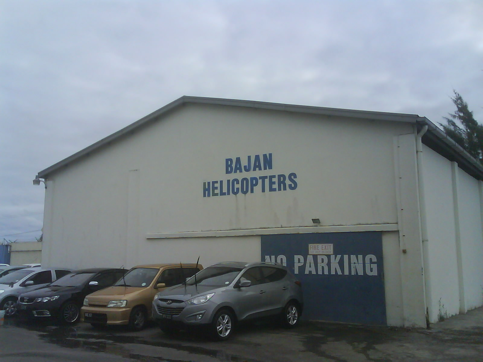 The office of Bajan Helicopters at the mouth of the Careenage. (Located in the James Fort area of Bridgetown), St. Michael.